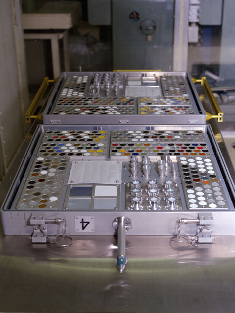 POSA II sample tray